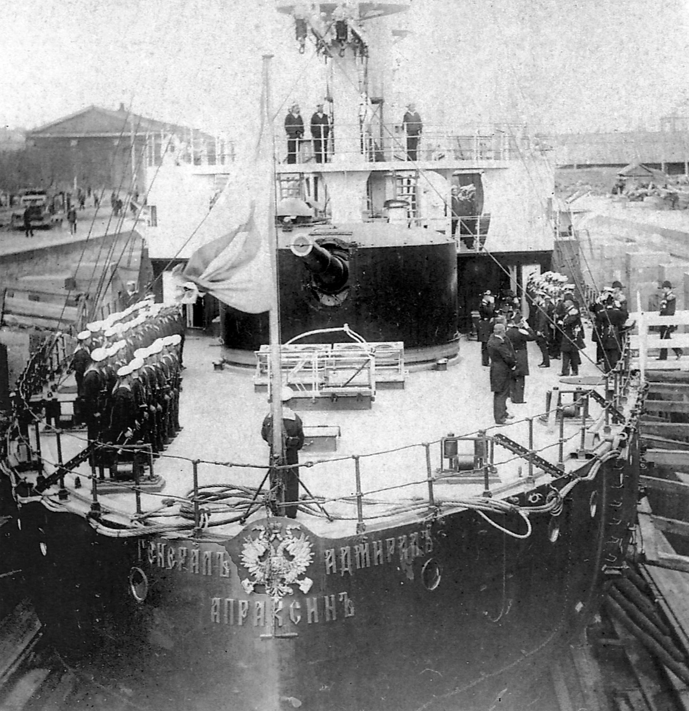 Imperial Russian coastal battleship General-Admiral Apraksin.